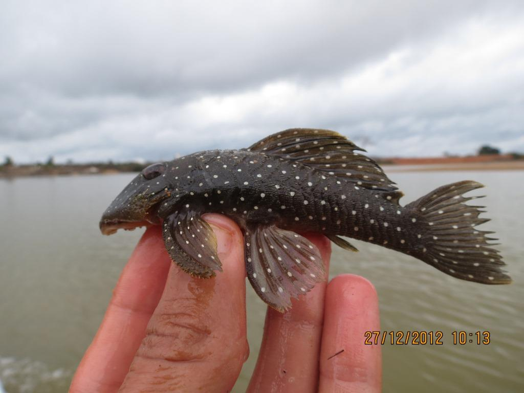 Brazil, Xingu river, Para, december 2012, by Gabriel Lelis Togni